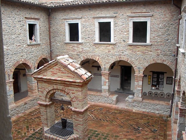 chiostro degli zoccolanti